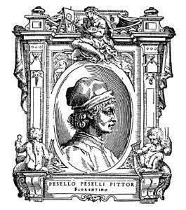 Illustratio from "Le Vite" by Giorgio Vasari, edition of 1568. For the artist portrayed see filename